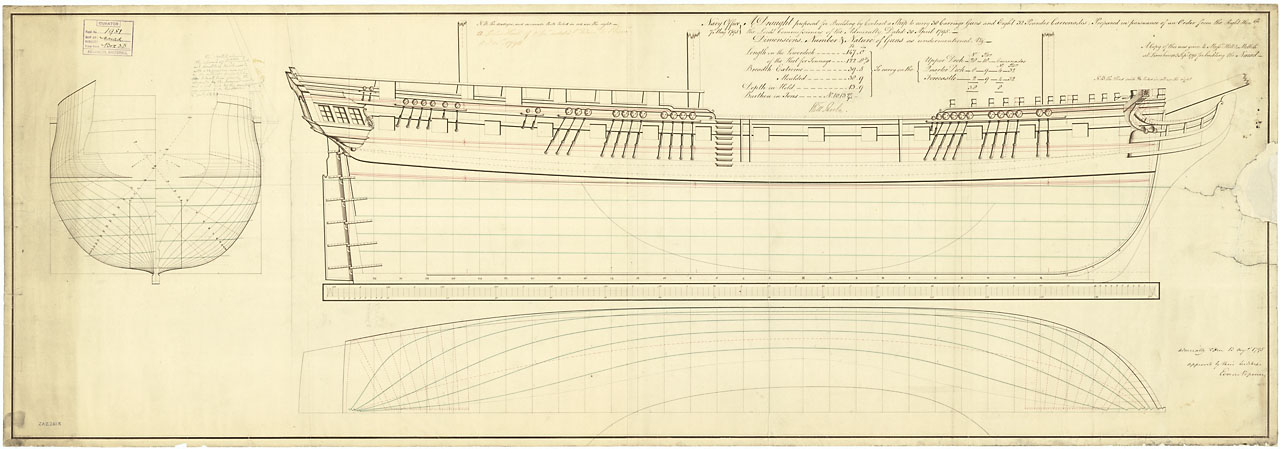 NAIAD 1797 lines